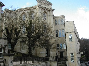 Walcot School and the Star Inn, Vineyards, Bath. Image of the Walcot School Building, and a side view of the unusual Vineyards building which is home to the Star Inn public house.